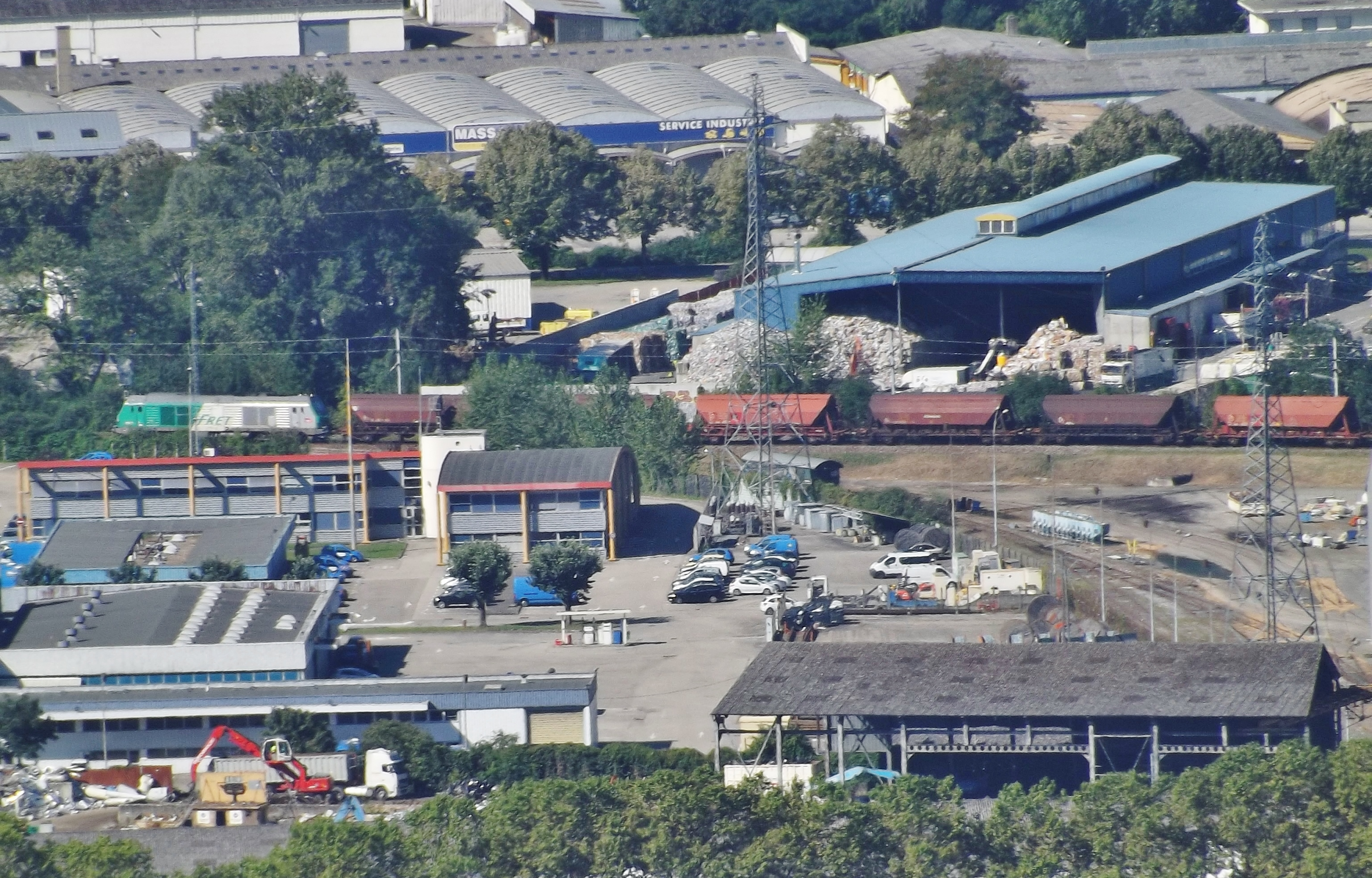 Panoramic sight of a freight train (gypsum, bound for Placoplatre company) here pushed by a SNCF Class BB 75000, on the Bissy industrial area, in Chambéry, Savoie, France.